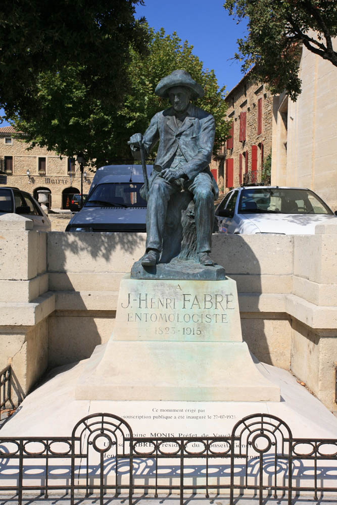 statue of Fabre in the village of Sérignan du Comtat, Vaucluse, France